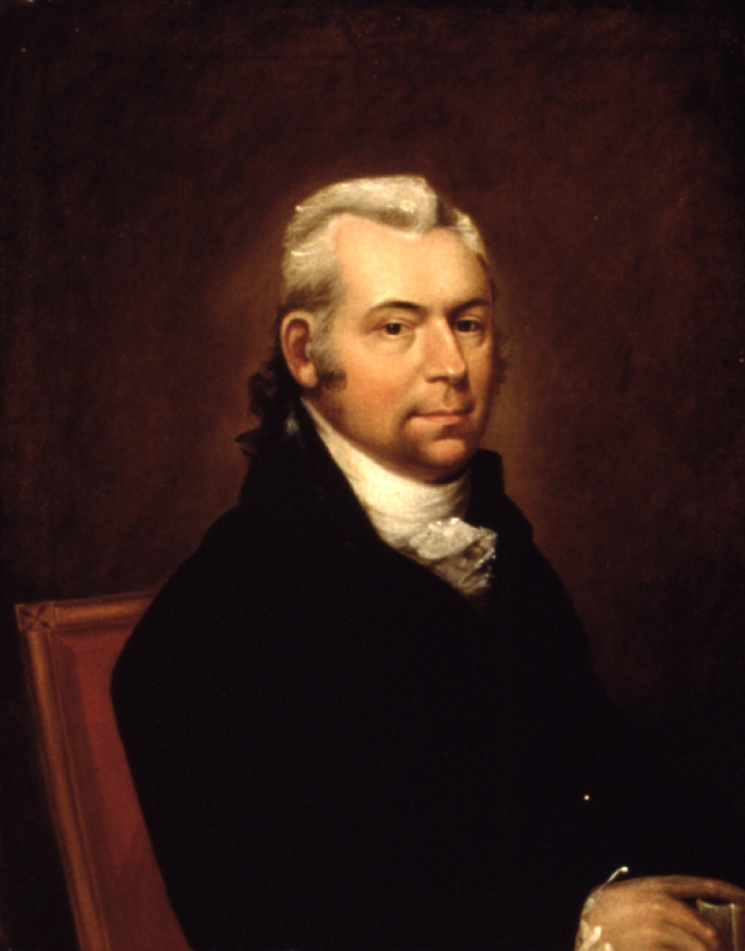 Portrait of Gideon Granger (1767 - 1822) American Painting Oil on canvas 29 1/4 in. x 23 in. (74.3 cm x 58.42 cm)